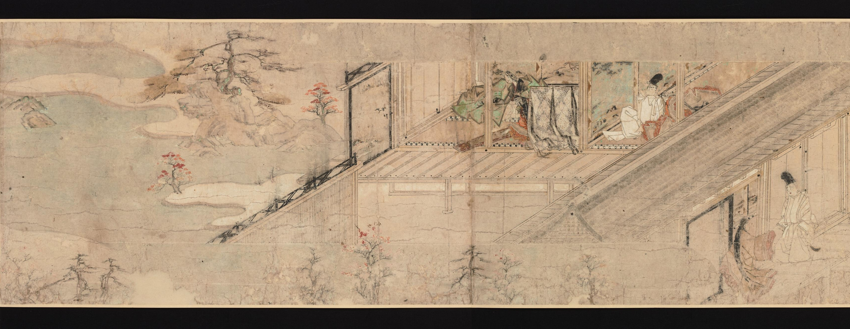 Sumiyoshi monogatari emaki. Tokyo National Museum. Part 3.